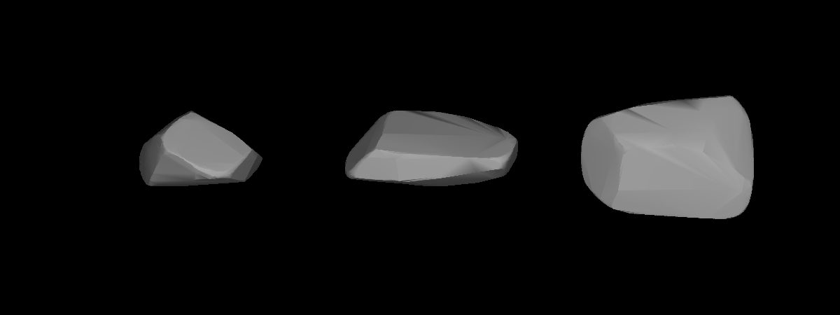 A three-dimensional model of 7043 Godart that was computed using light curve inversion techniques.